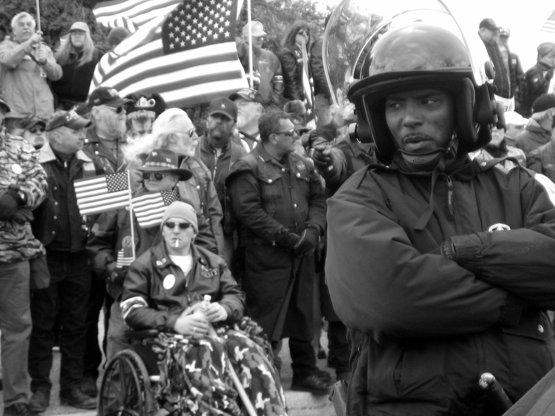 Pro Iraq War demonstrators at the pentagon (for full description see flickr page).